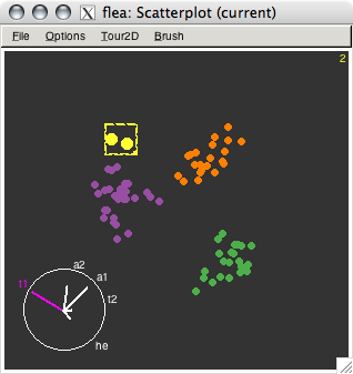 Screenshot of ggobi, showing brushing in a scatterplot